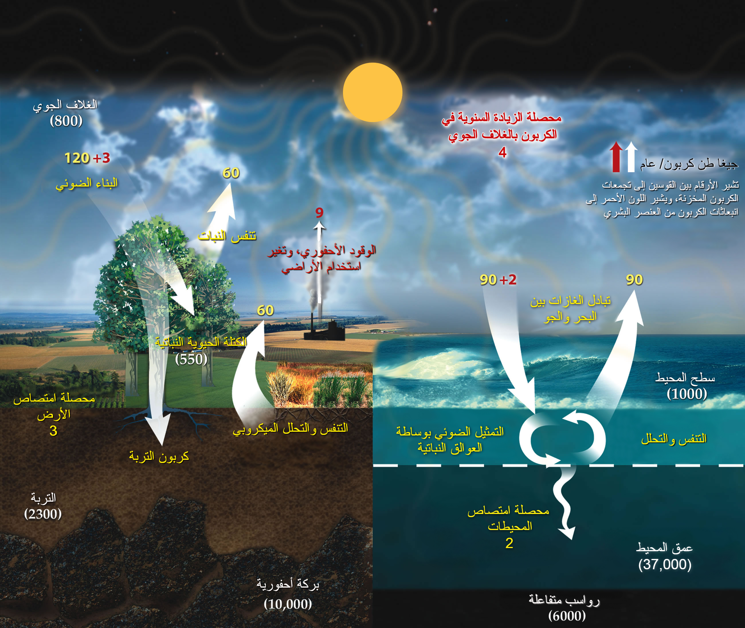 Carbon is constantly transported between the different elements of the climate system: fixed by living creatures and transported through the ocean and atmosphere.